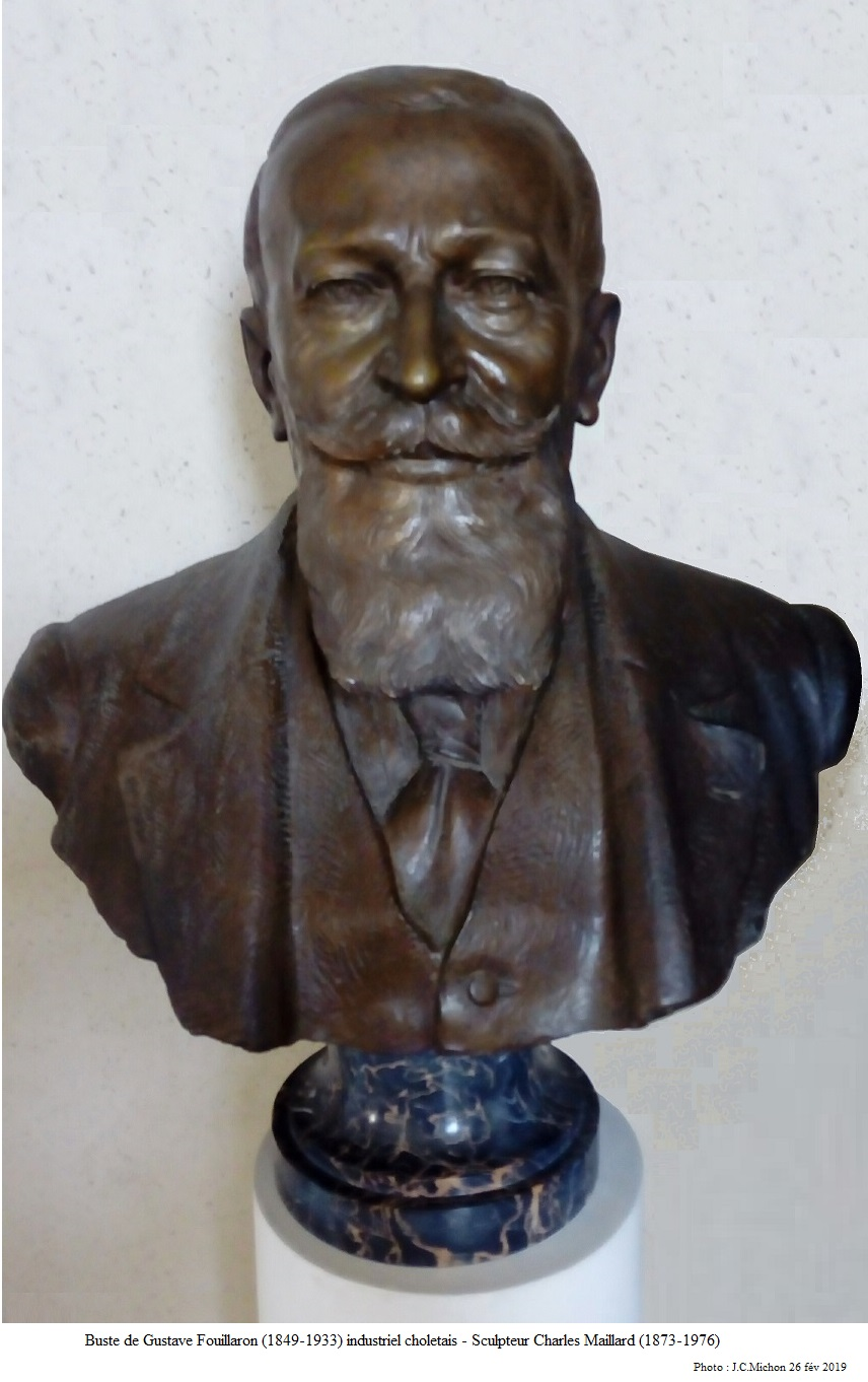 Bronze bust on marble base portor